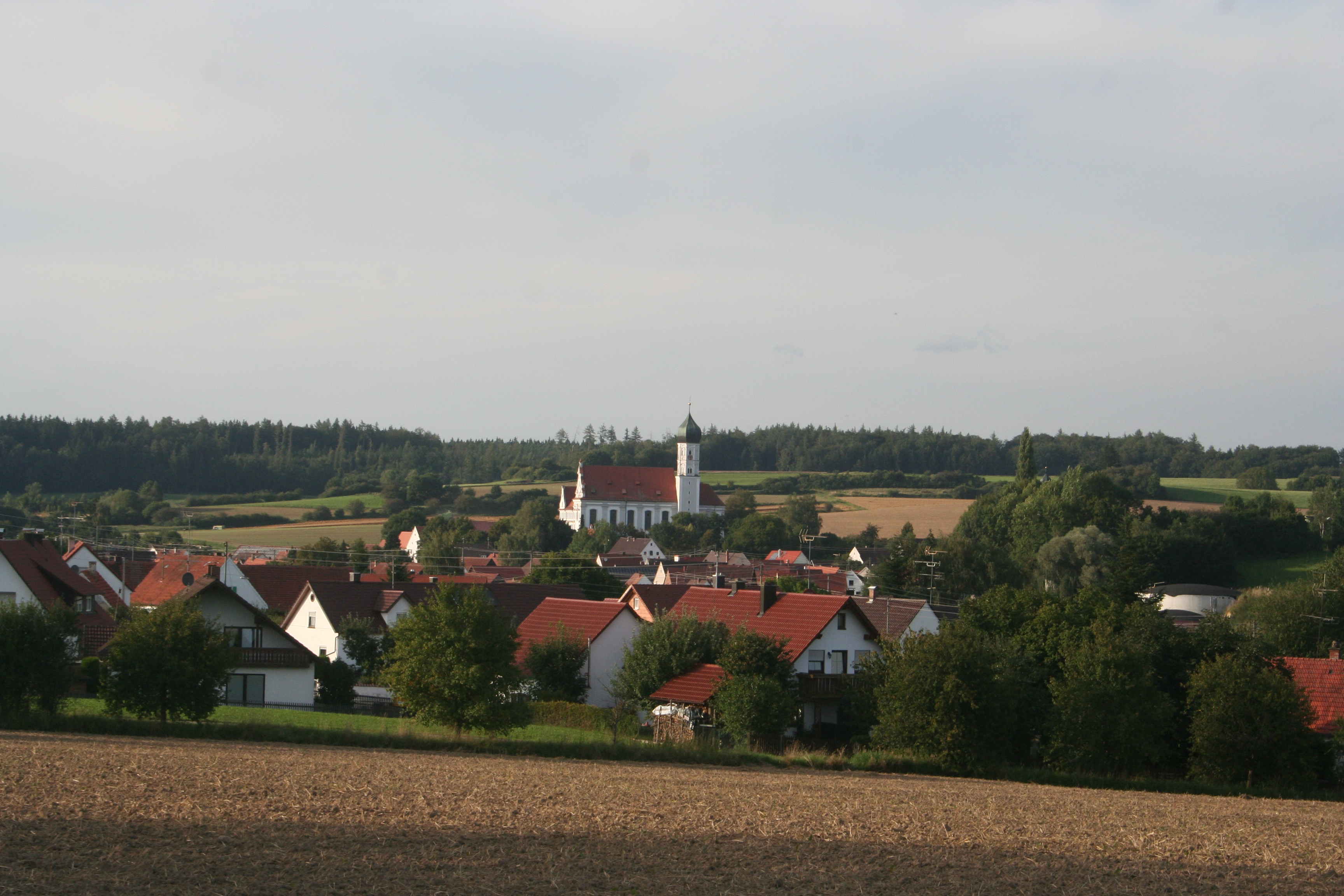 look at Edelstetten from south